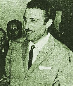 Argentine industrialist Jorge Antonio (1917 - 2007).